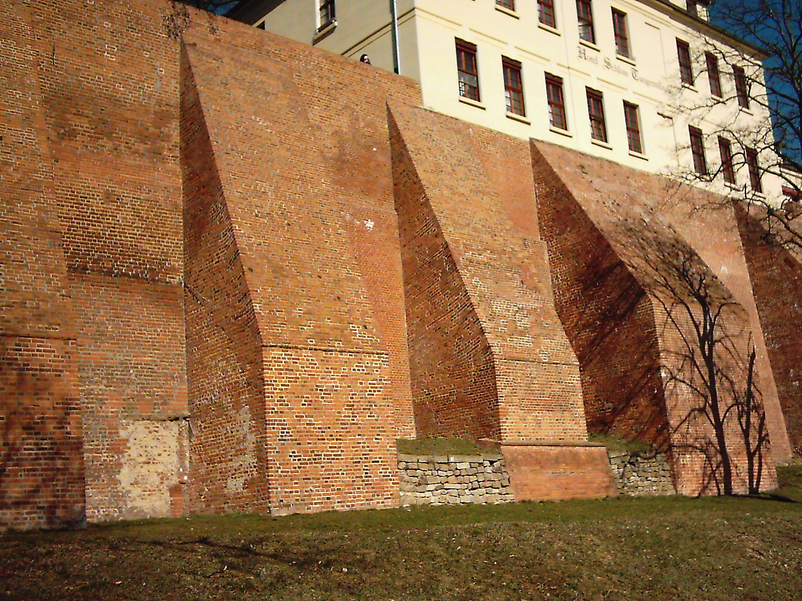 City Wall in Tangermünde